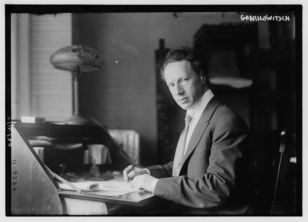 Ossip Gabrilowitsch looking at the camera in 1915